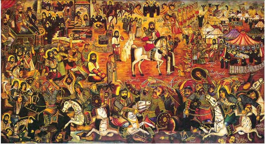 The work depicts scenes from Battle of Karbala